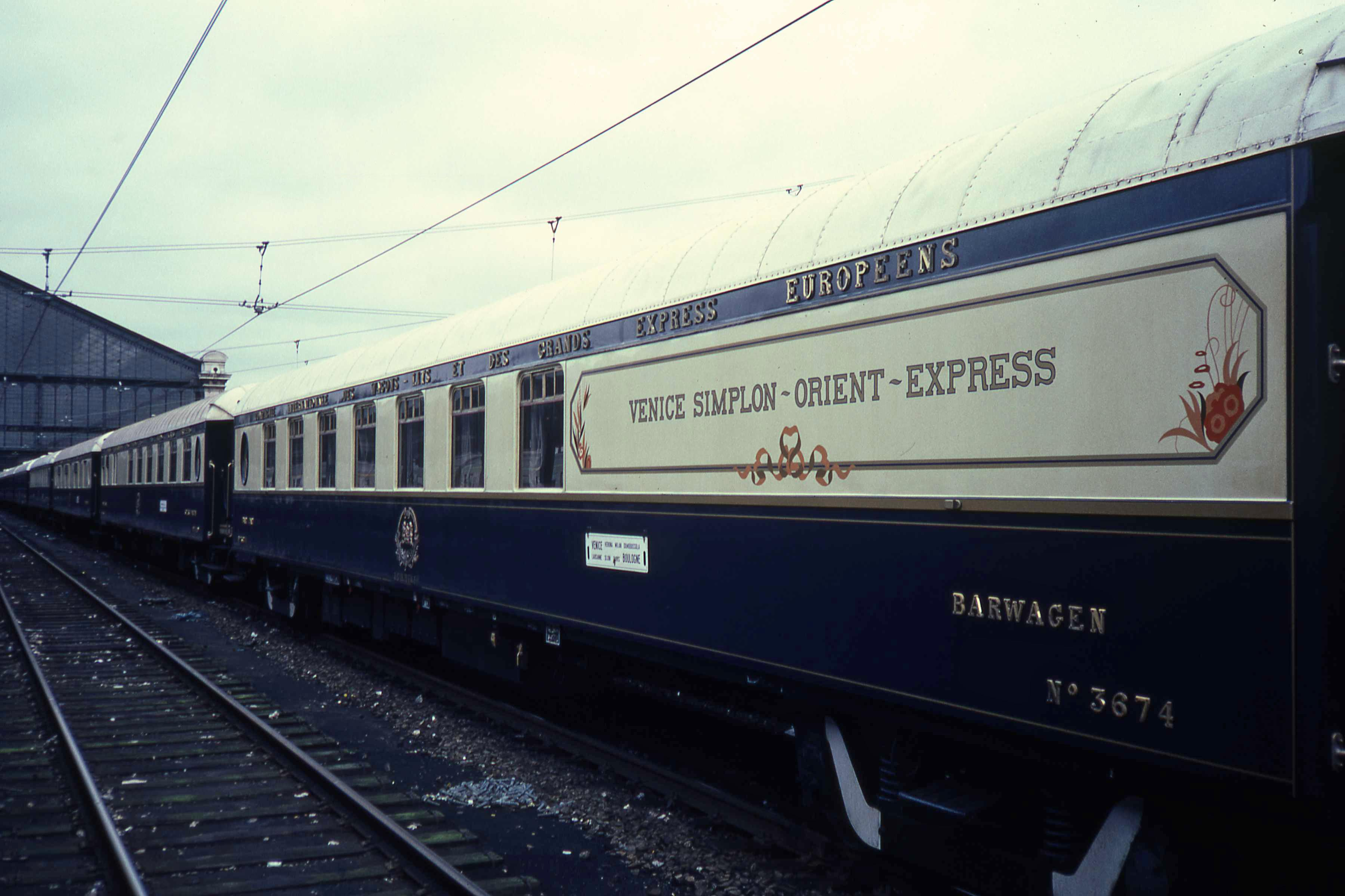 Luxury Venice Orient Express in Gare d'Austerlitz. This was a very long train of up to 16 cars or more.